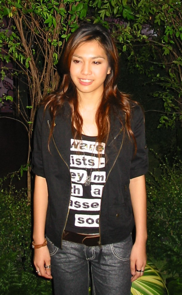 Punch Worrakarn (พั้นช์-วรกาญจน์ โรจนวัชร) at Star Entertainment Awards 2007